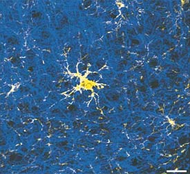 The photo above shows a multitude of nerve fibers in the cerebral cortex stained in blue and, right in the middle, a glial cell, stained in yellow.